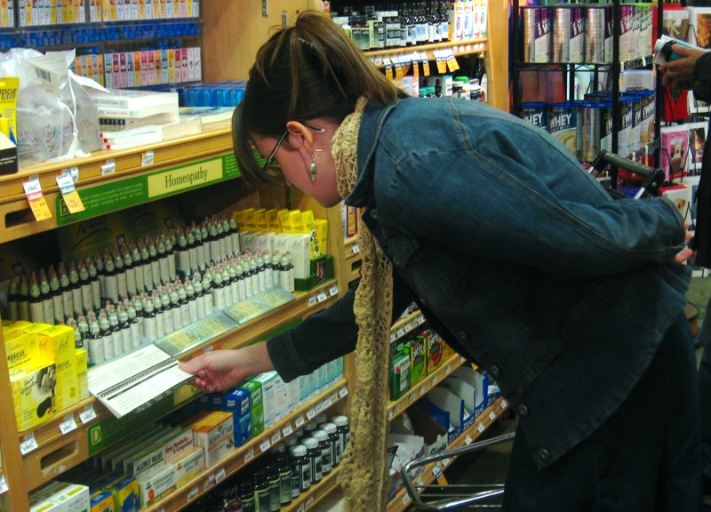 Woman looking at Bach Flower remedies at a branch of "Whole Foods Market".